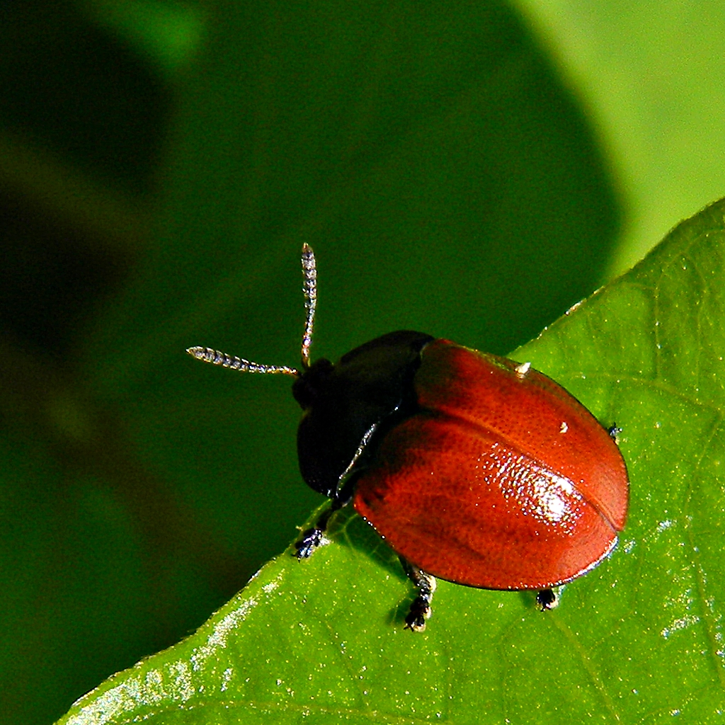 Chelymorpha cribraria, North Palm Beach, FL, USA